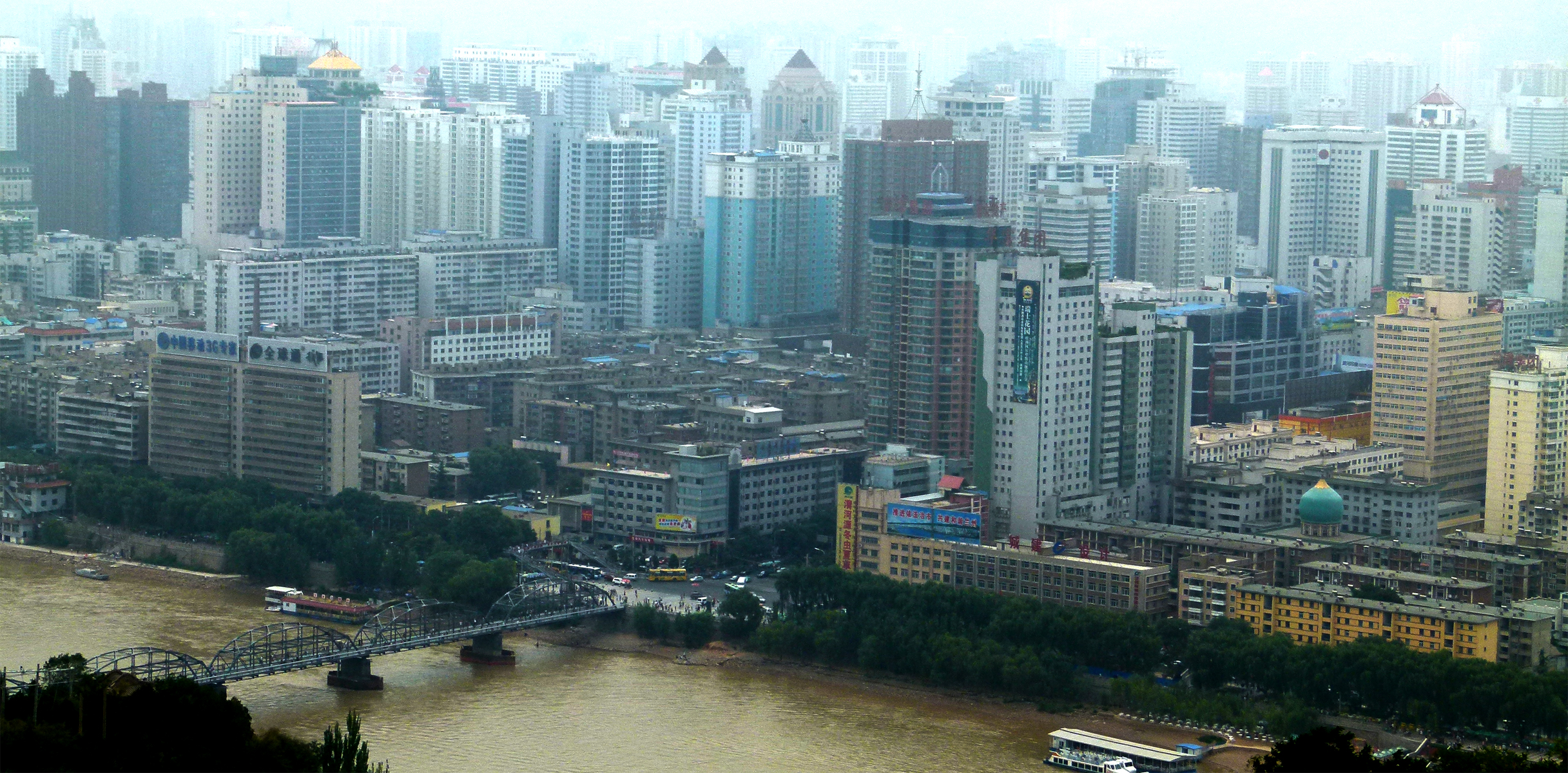 View on Lanzhou (North-West China) and the Yellow River